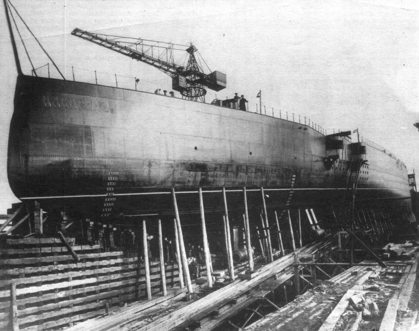 Battlecruiser Navarin at New Admiralty in Petrograd.